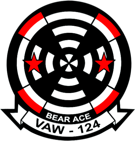 Insignia of the U.S. Navy Carrier Airborne Early Warning Squadron 124 (VAW-124) "Bear Aces".